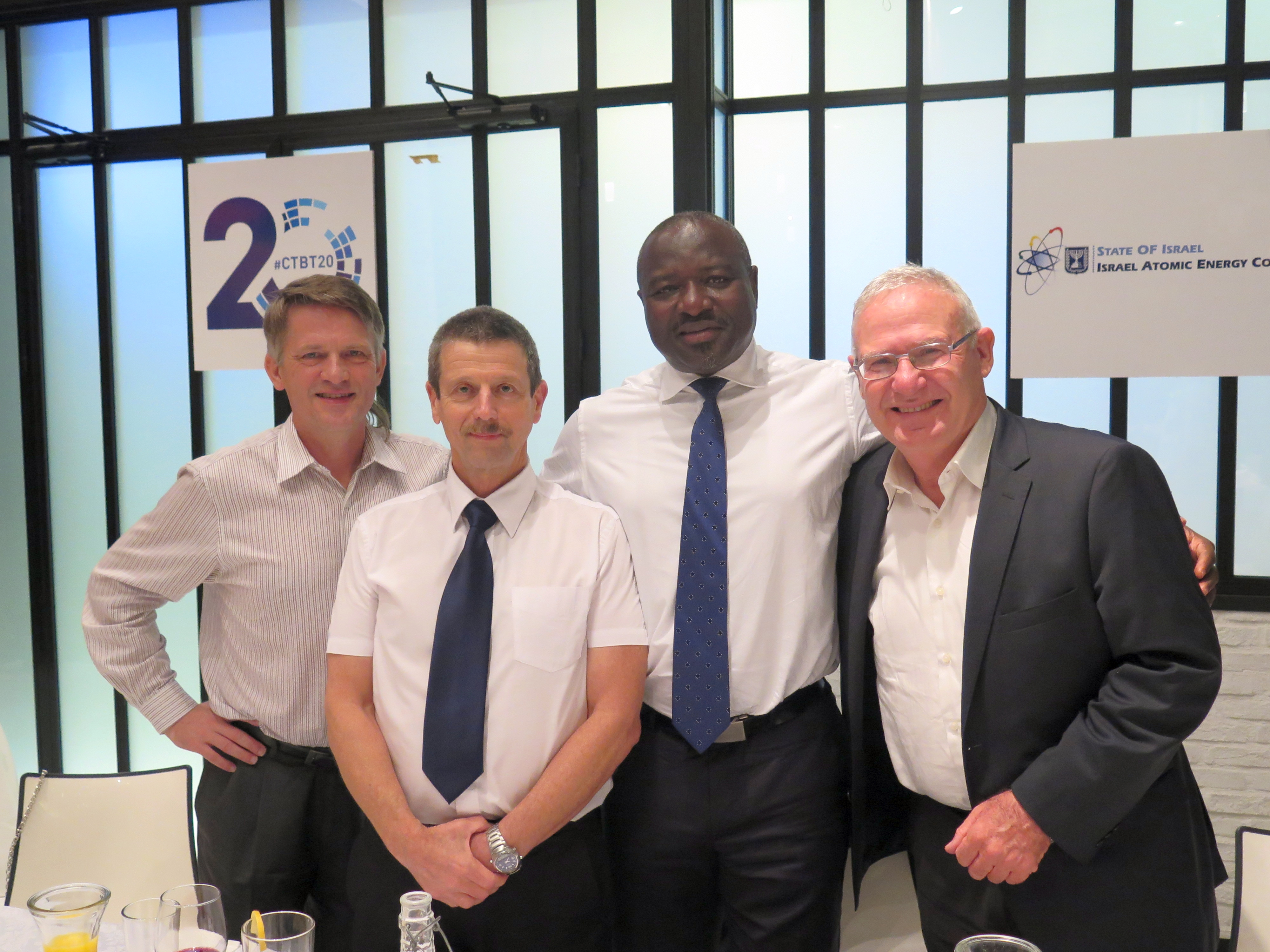 Left to right: U.S. Assistant Secretary for International Security and Non-proliferation, Thomas Countryman; Ze’ev Snir Director General, Israel Atomic Energy Commission (IAEC); CTBTO Executive Secretary Lassina Zerbo and Amos Yadlin, Executive Director of Institute of National Security Studies (INNS) at a dinner to mark 20th anniversary of the CTBT, hosted by IAEC and INNS, on 20 June 2016, Herzliya, Israel. See here for the details of the visit: bit.ly/28KuSzb